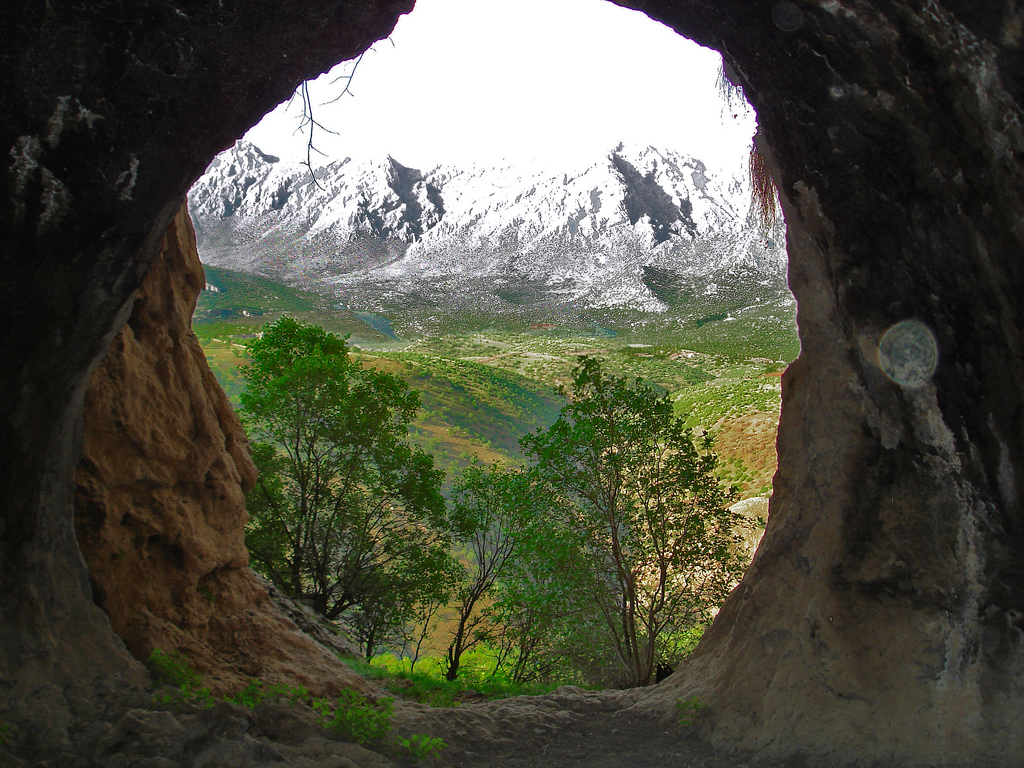 Kermanshah Cave